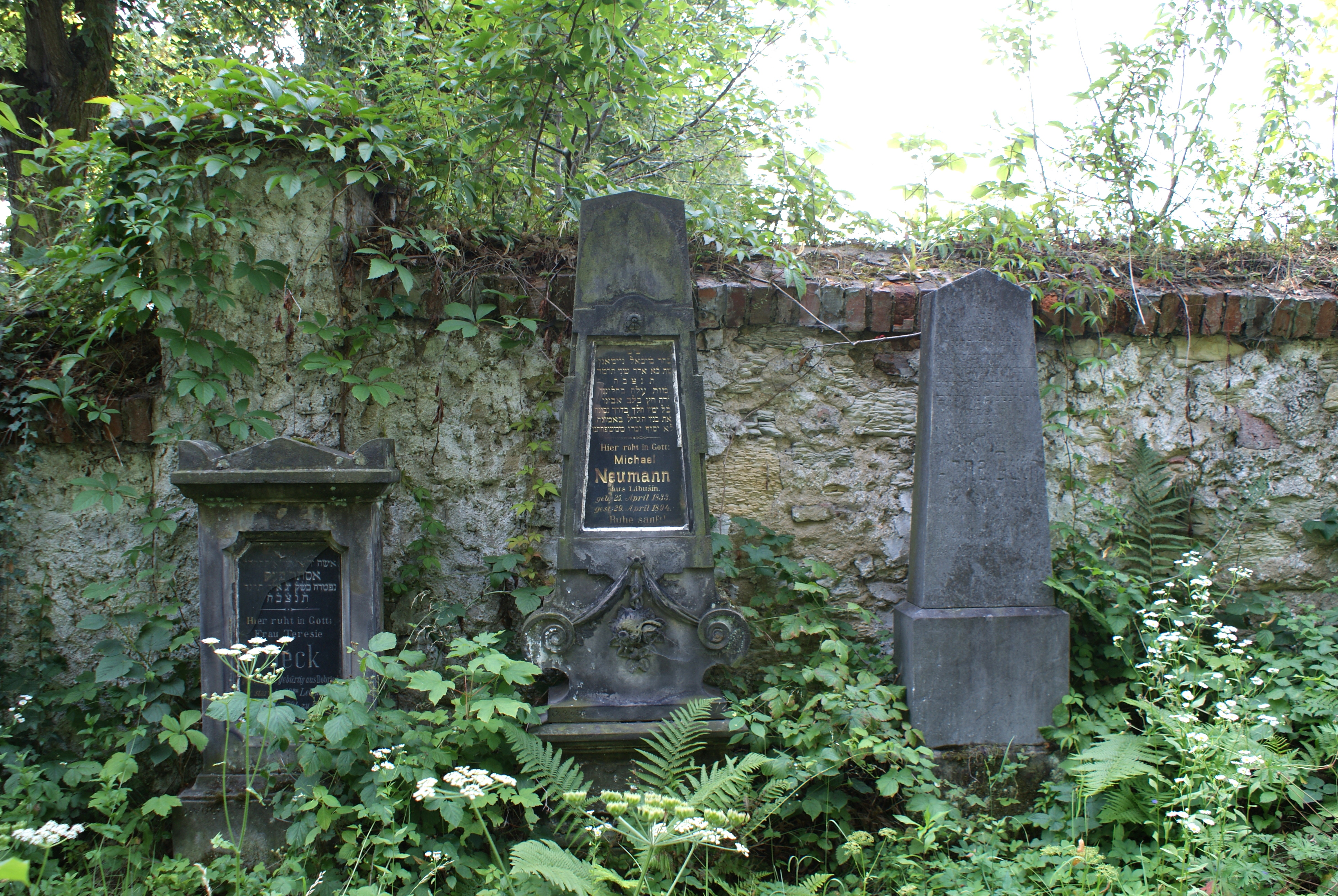 Jewish cemetery in Kladno, a town in Central Bohemian region, Czech Republic.